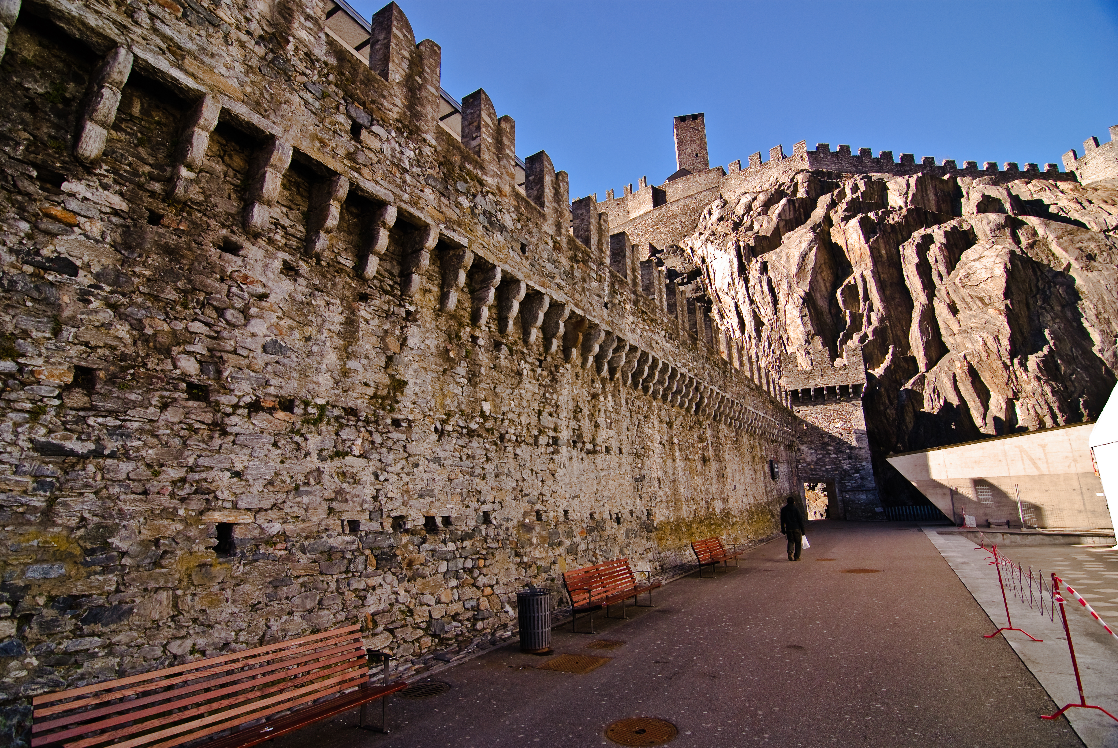 The three castles, the defensive wall and the ramparts of Bellinzone appear on the UNESCO world Heritage List since 2000. The registration of a cultural or natural site on this list is evidence of its outstanding universal value so as to ensure its protection for mankind